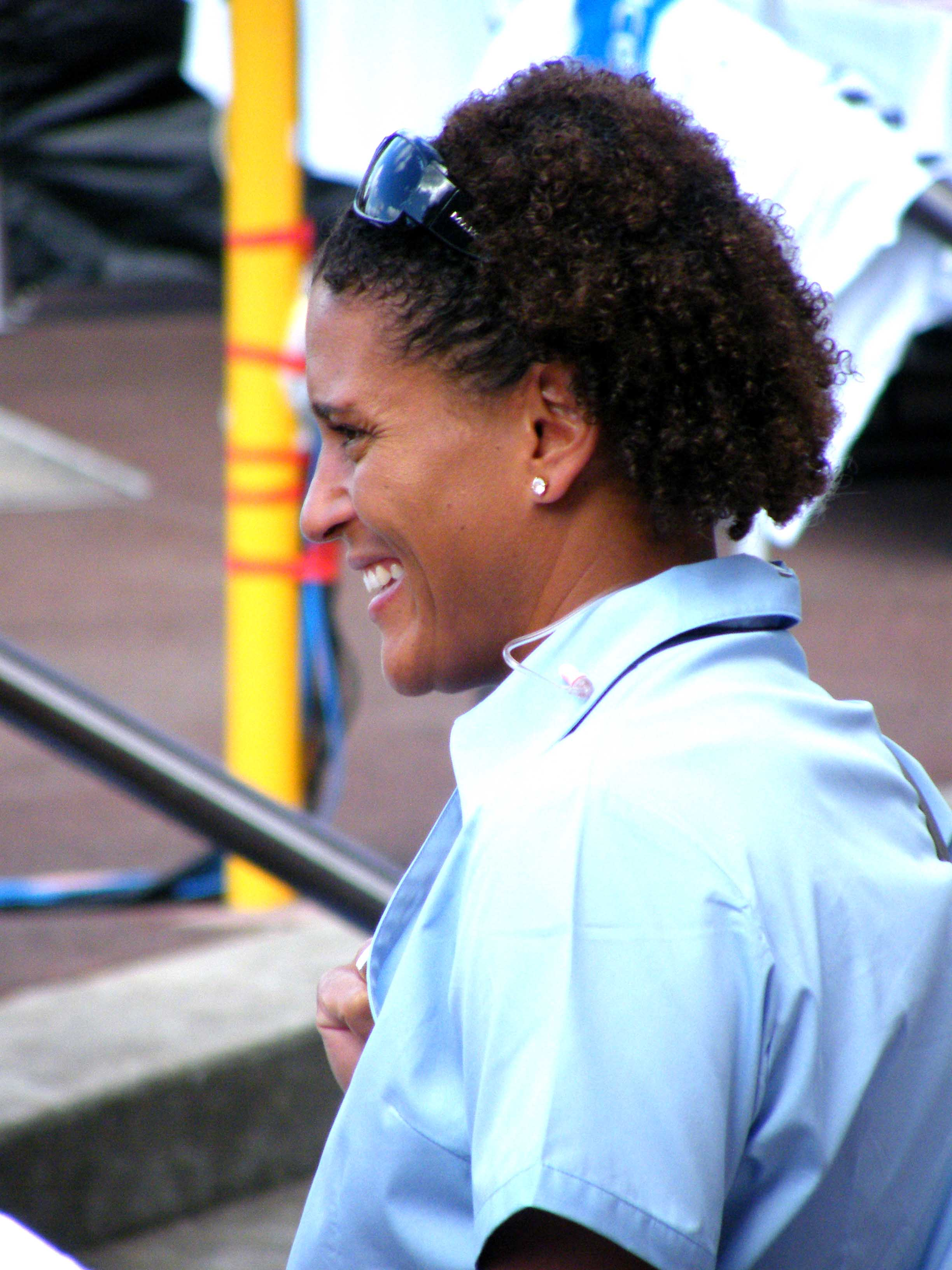 Former Australian cricketer Mel Jones, during the ICC Women's Cricket World Cup - Sydney, March 2009.